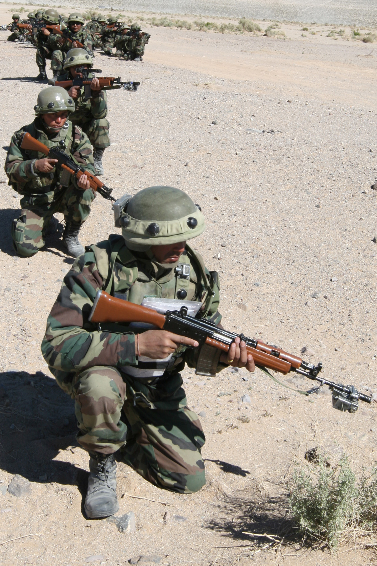 Indian army soldiers with 1st Battalion, 1 Gorkhas Rifles take up security positions outside a simulated combat town during training exercises at the National Training Center at Fort Irwin, Calif., March 12, 2008, as part of Exercise Shatrujeet 2008. The combined arms exercise conducted by U.S. forces and members of the Indian army is designed to share knowledge and build interoperability for possible future operations.